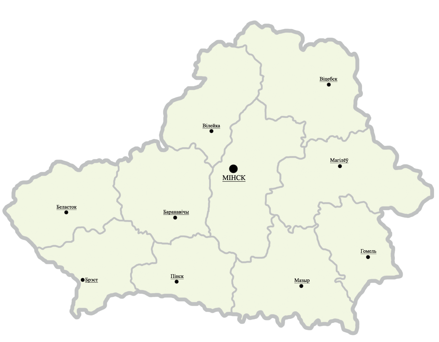 Map of Belarus in year 1940. (BY language)